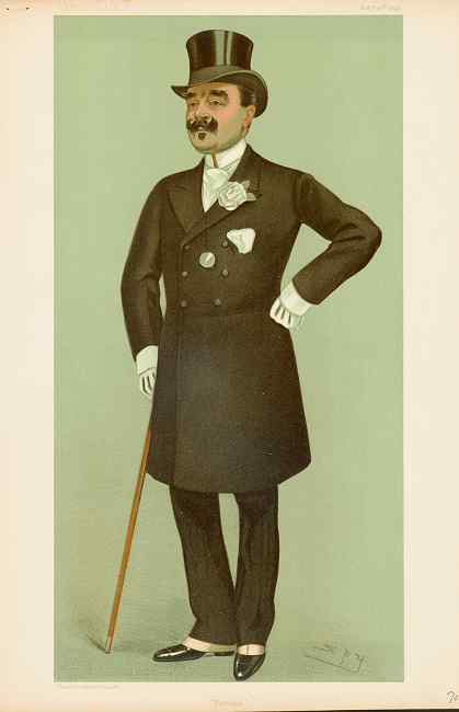 Men of the Day No.704: Caricature of Sen Luiz de Soveral GCMG (Luís Augusto Pinto de Soveral, Marquês de Soveral). Caption reads: "Portugal".